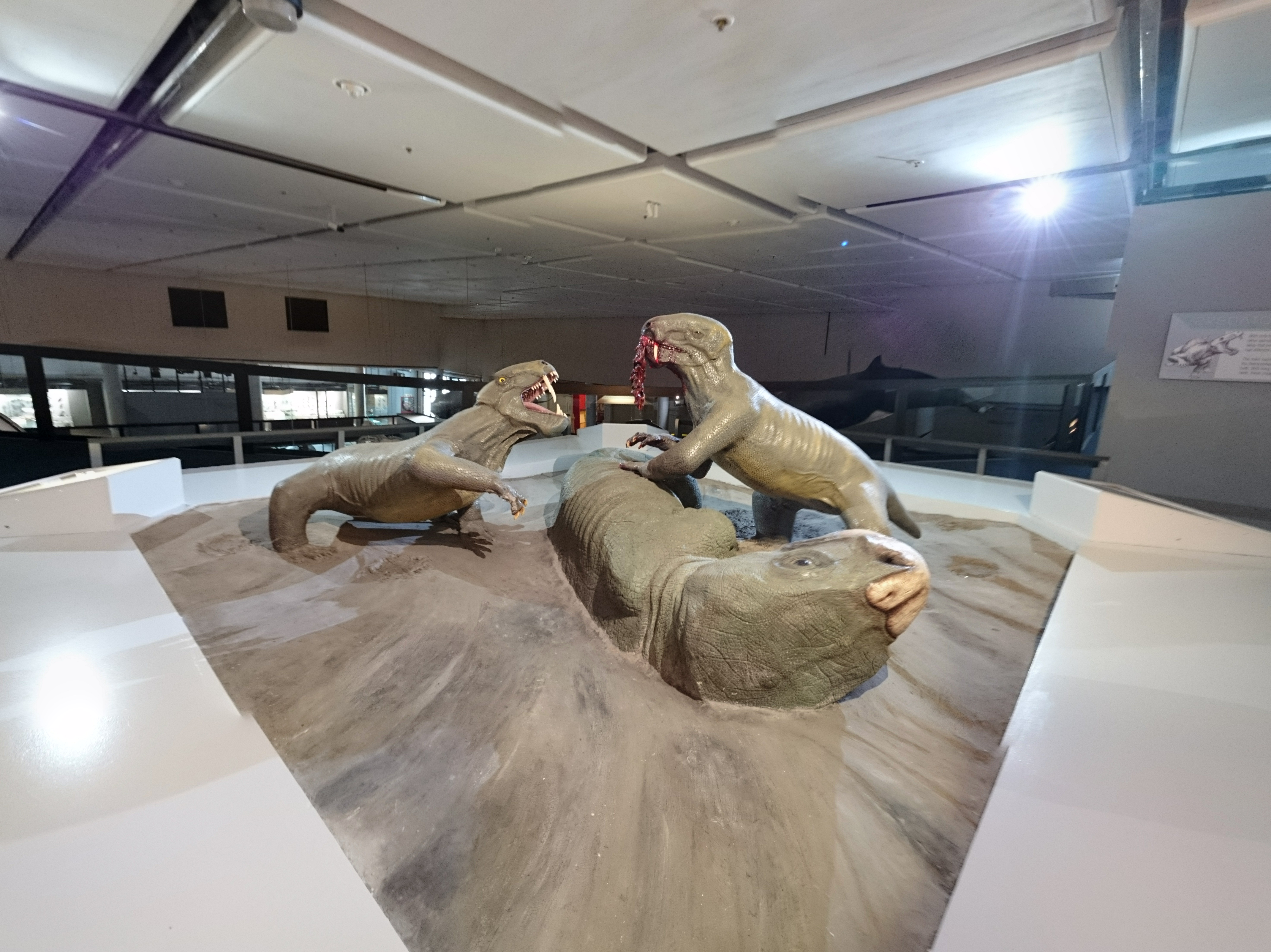 It is unlikely that Gorgonops could actually hunt and kill a healthy animal as large as this adult Oudenodon. However, they would always be on the look out for young and sick animals that could be brought down more easily.